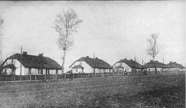 The clecks houses of the Dukla Mine (Havířov, Czech Republic) in 1920